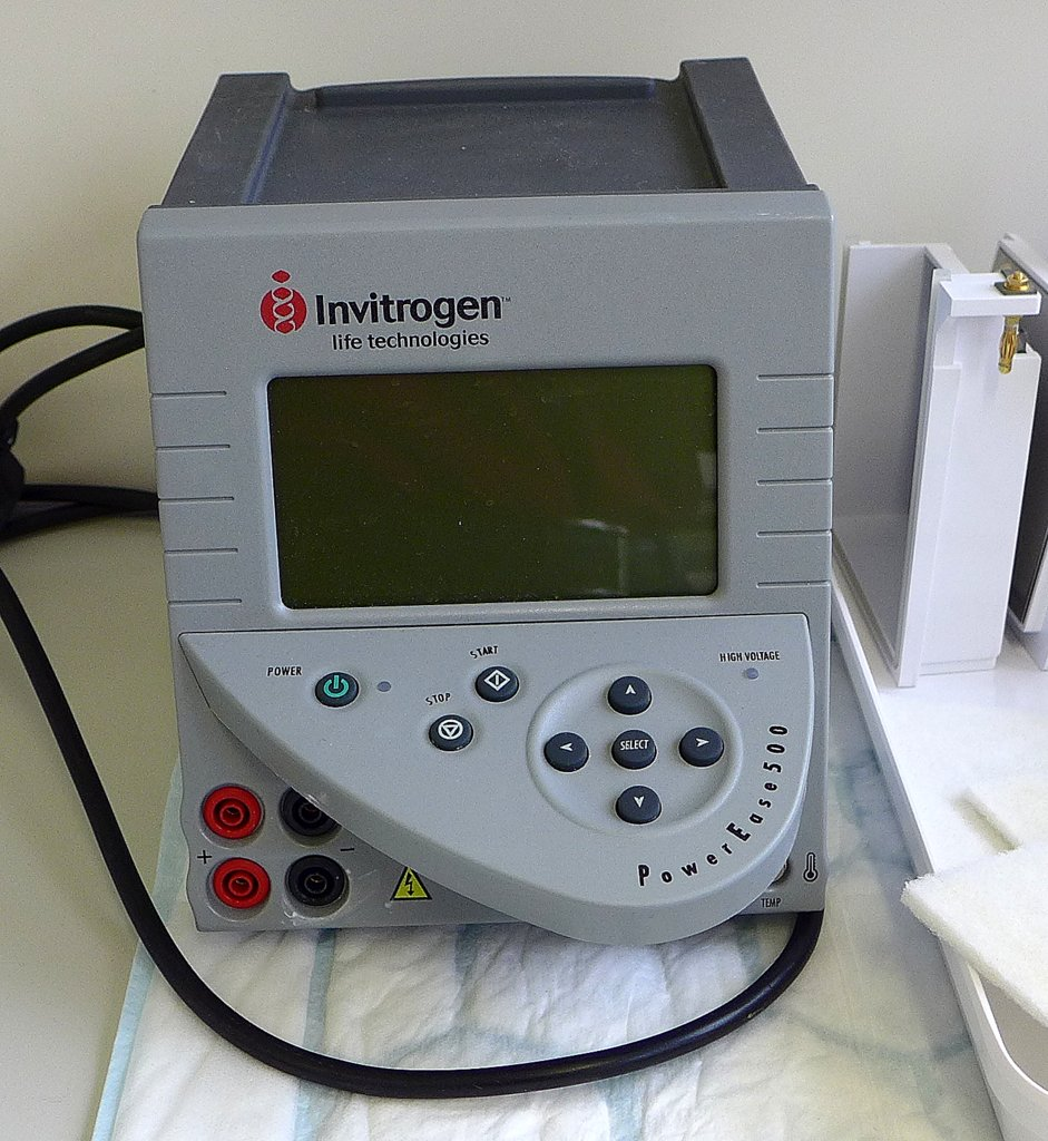 Invitrogen power supply